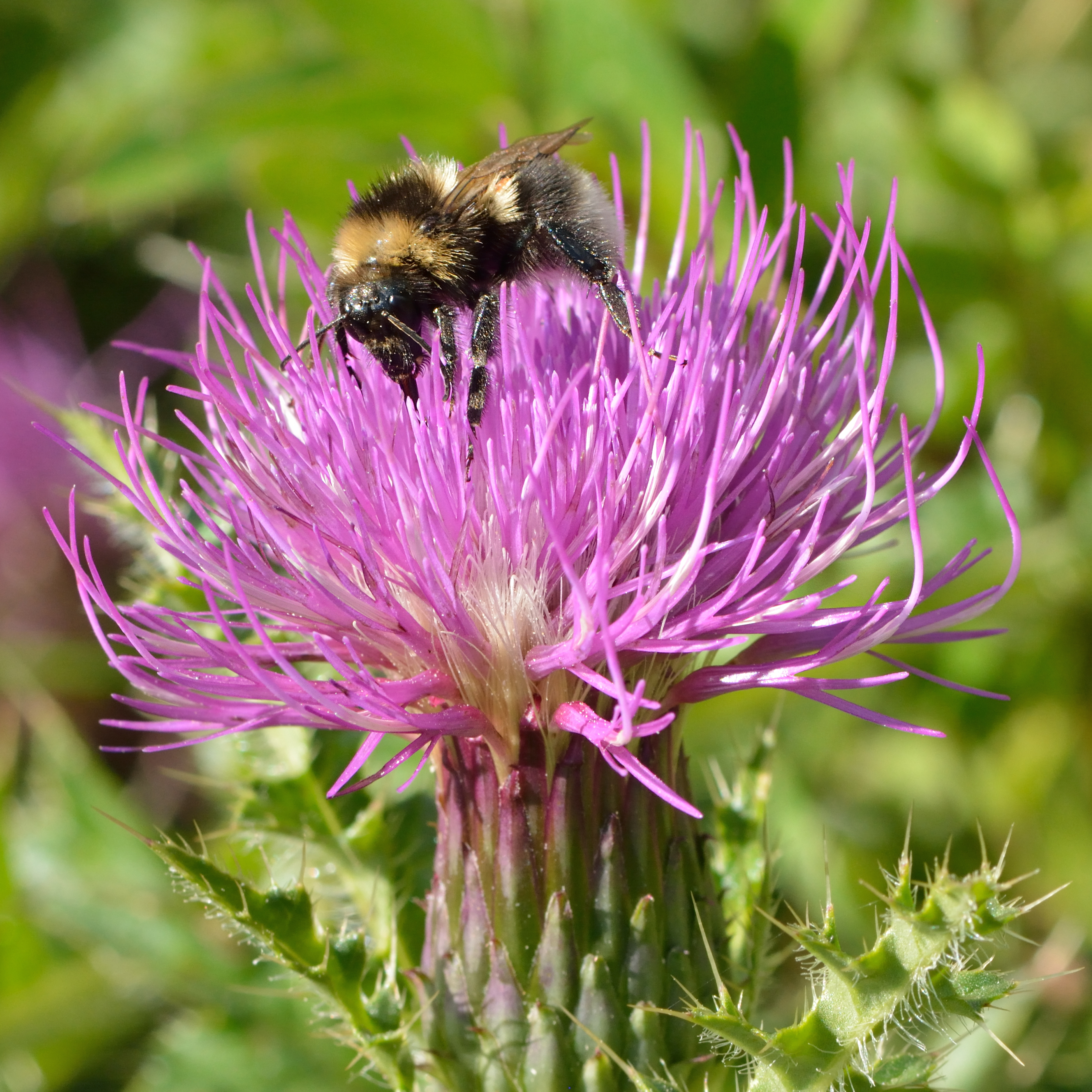 Barbut's cuckoo-bee (Bombus barbutellus) on the dwarf thistle (Cirsium acaule). Keila, Northwestern Estonia.